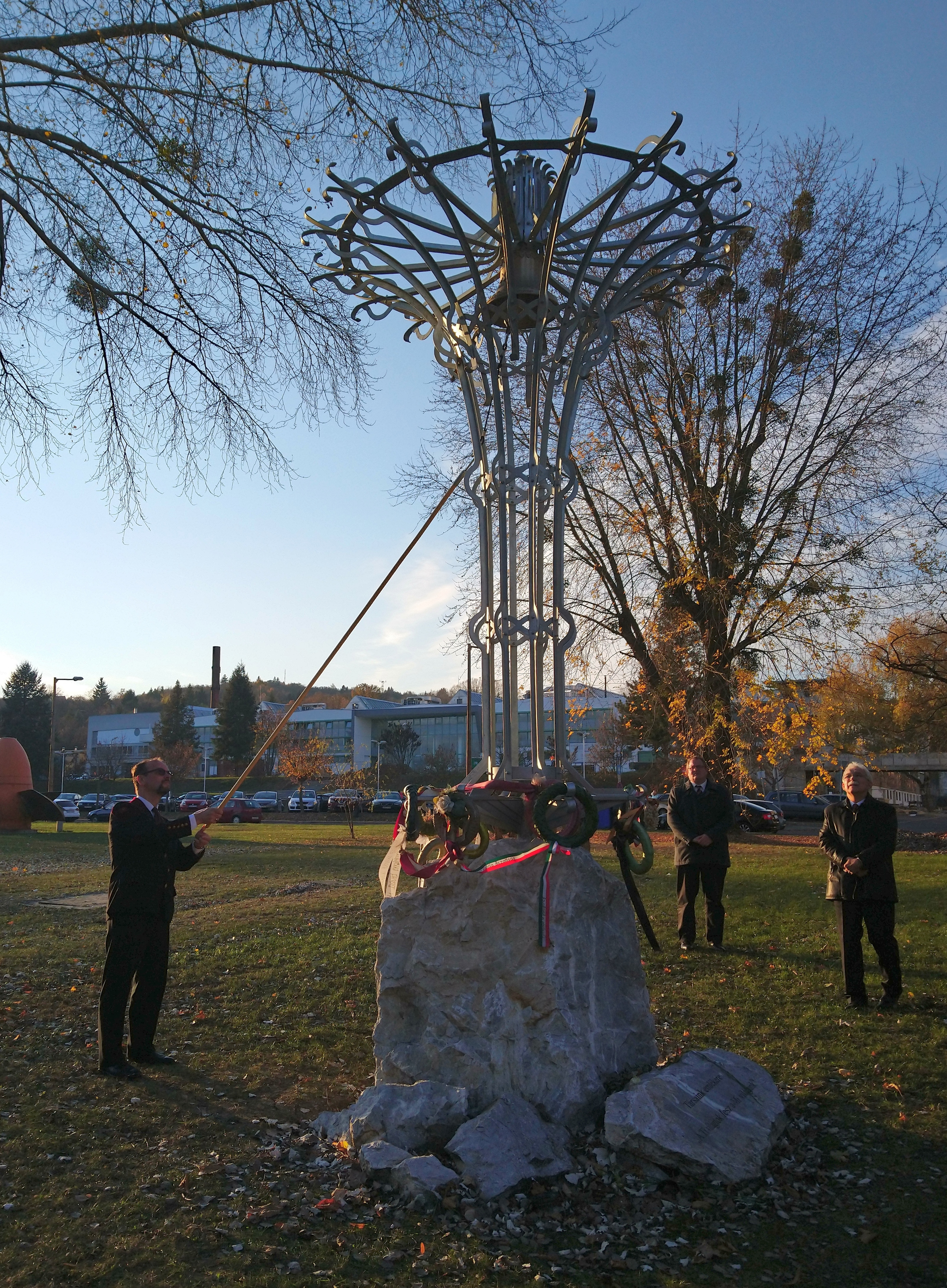 Sounding the Knell in memory of Professor Márton Voith in University of Miskolc